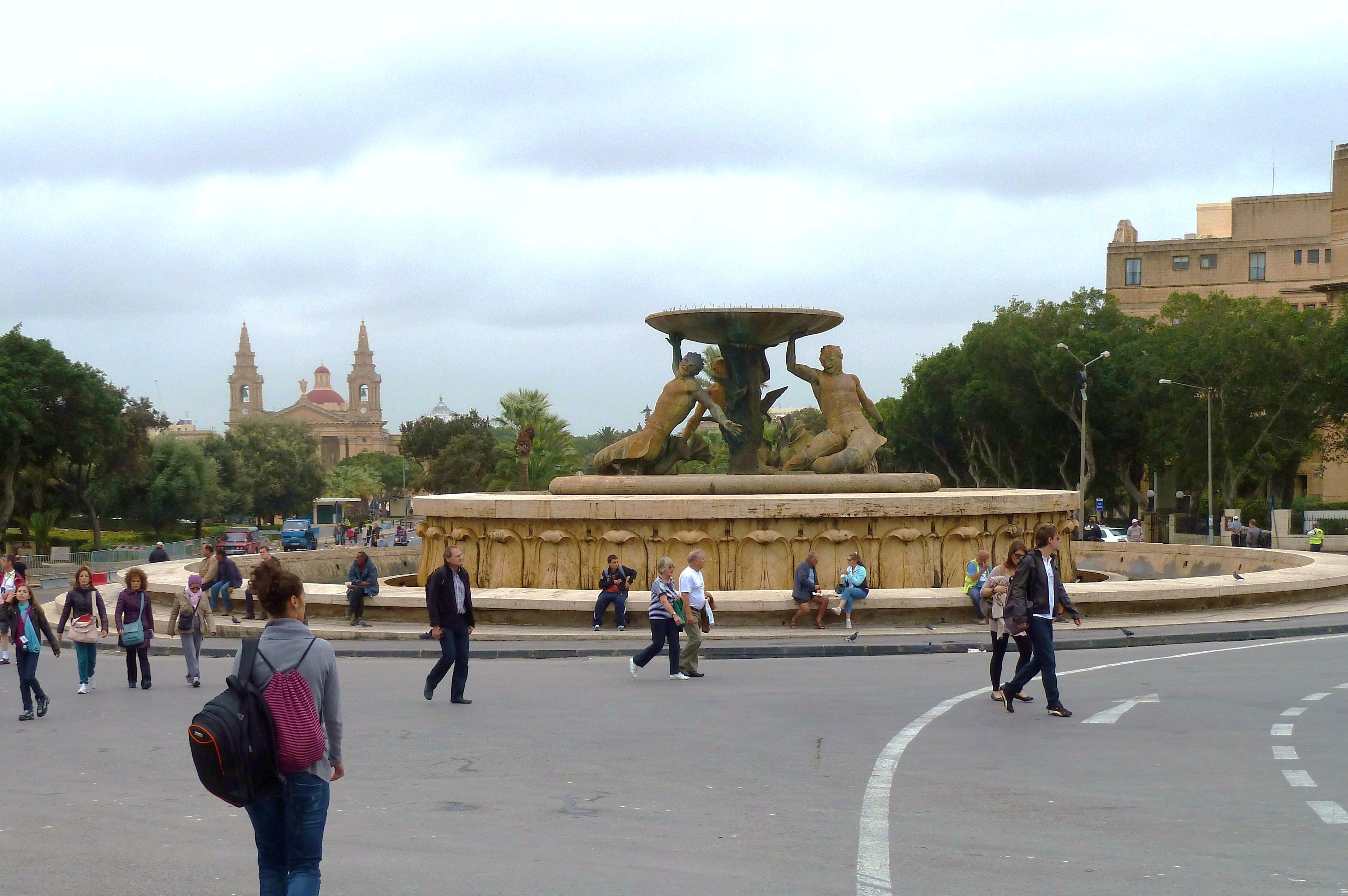 View from the former City Gate Valletta on the Triton Fountain in Floriana with the garden Maglio.